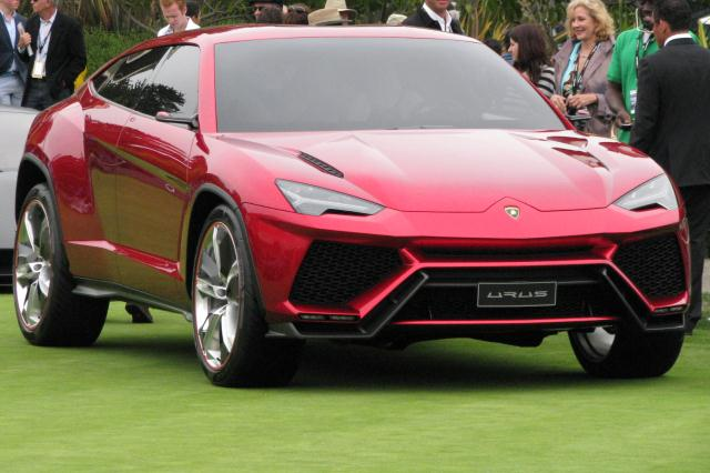 Lamborghini Urus at 2012 Pebble Beach Concours d'Elegance